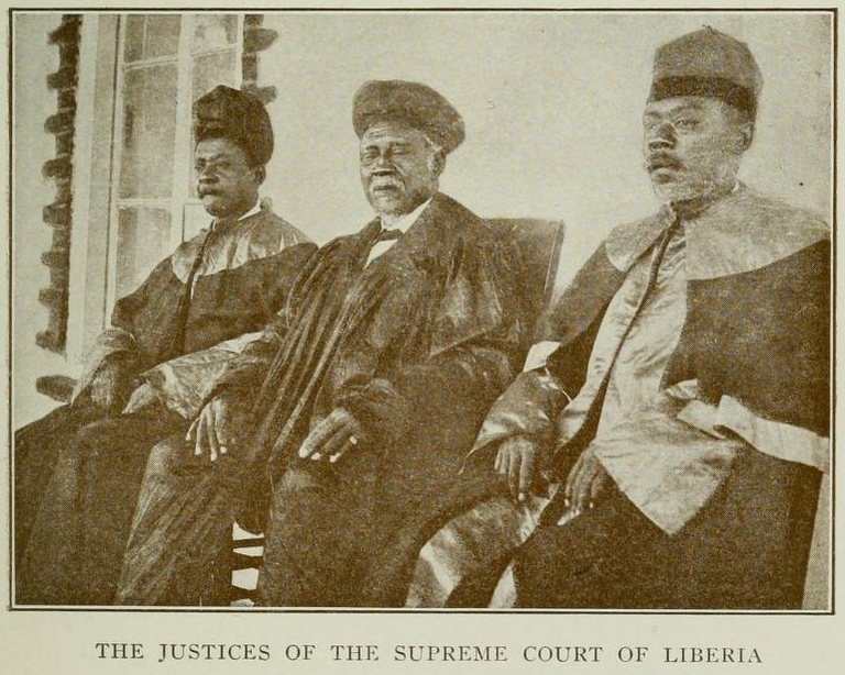 The members of the Supreme Court of Liberia - from: The land of the white helmet.